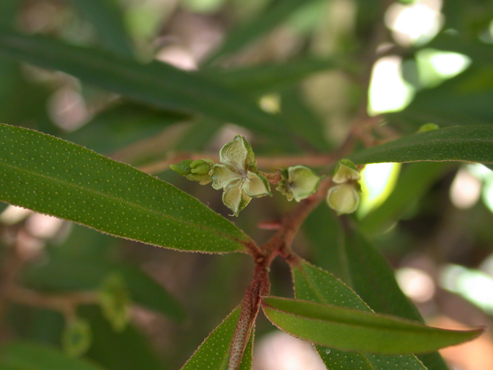 Nematolepis squamea: showing star-like fruit capsules and characteristic scaly leaves and stems. Photo taken by Rob Wiltshire and used with his permission.